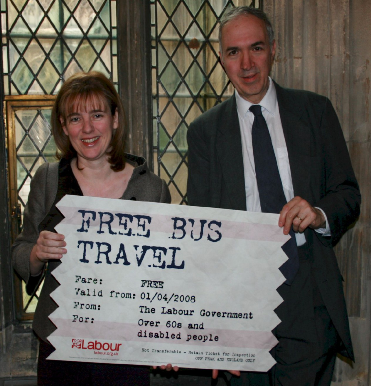 Nick Palmer with the Secretary of State for Transport, Ruth Kelly, launching the free bus pass for the elderly. Nick Palmer is the copyright holder and has granted permission for this picture to be released under the GFDL.